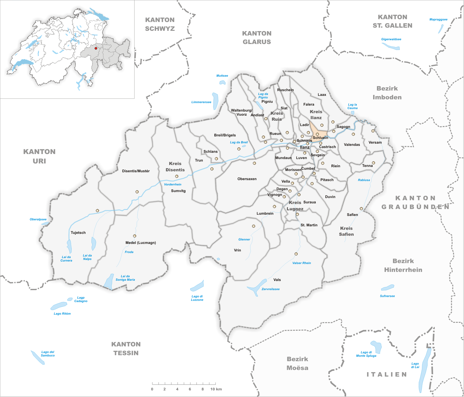 Municipality Schluein